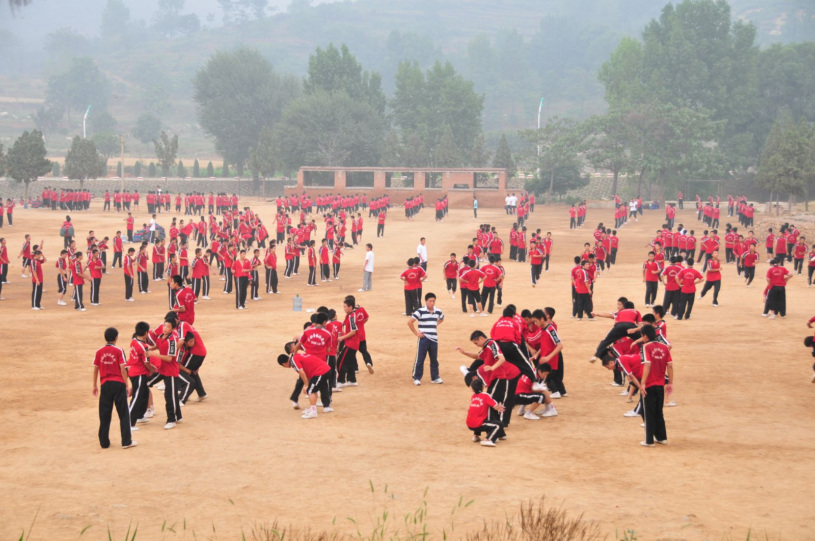 Practicing wushu in a school near the Songshan Shaolin Temple